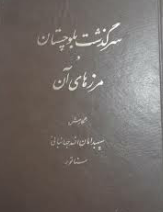 سرگذشت بلوچستان ومرزهای آن نوشته خاطرات تیمسار امان الله جهانبانی